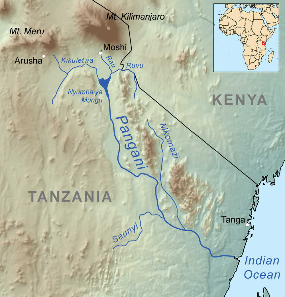 Map showing the Pangani River.